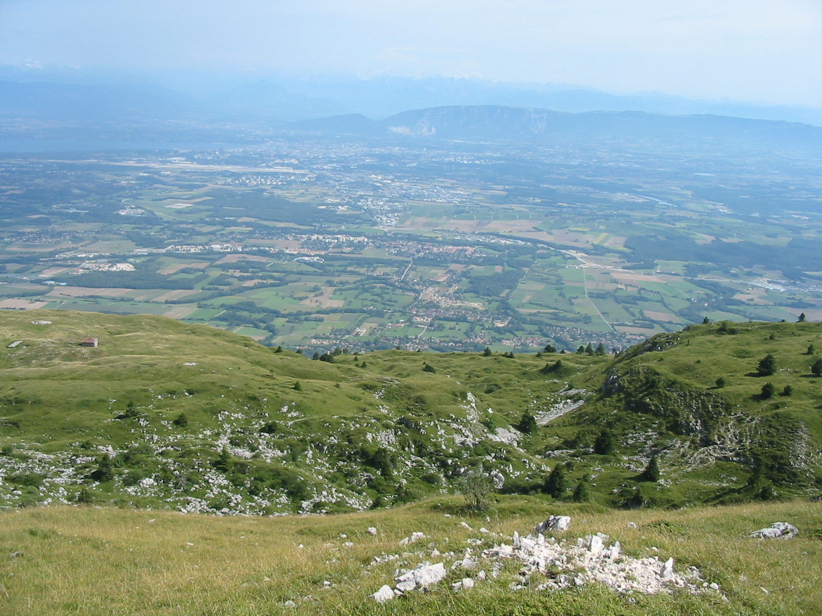 Looking towards Geneva from the summit of Cret De La Neige. Photo taken by Tom Corser 2004.